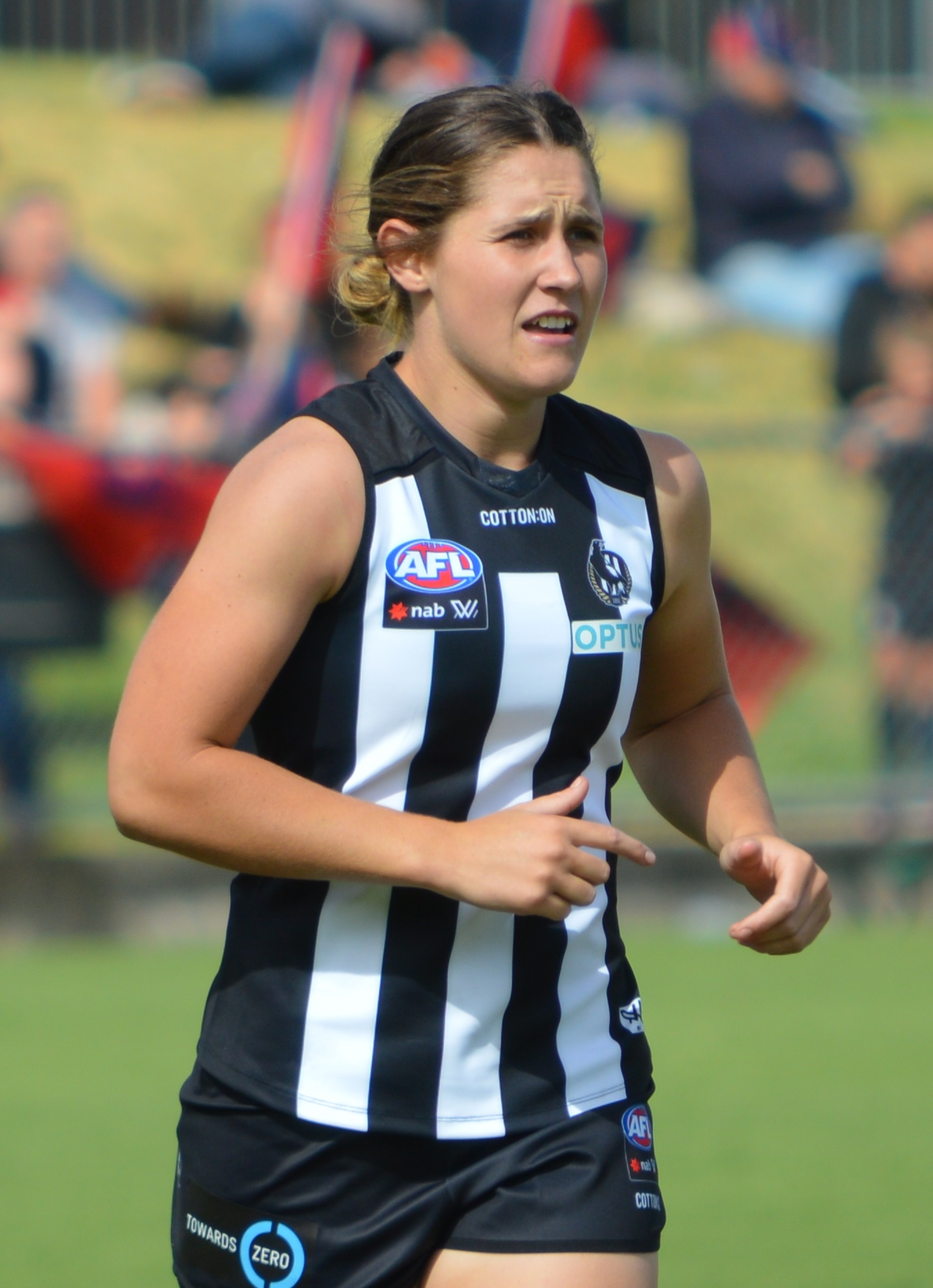 Iilish Ross with Collingwood during a match against Melbourne at Victoria Park in round 2 of the 2019 AFL Women's season.